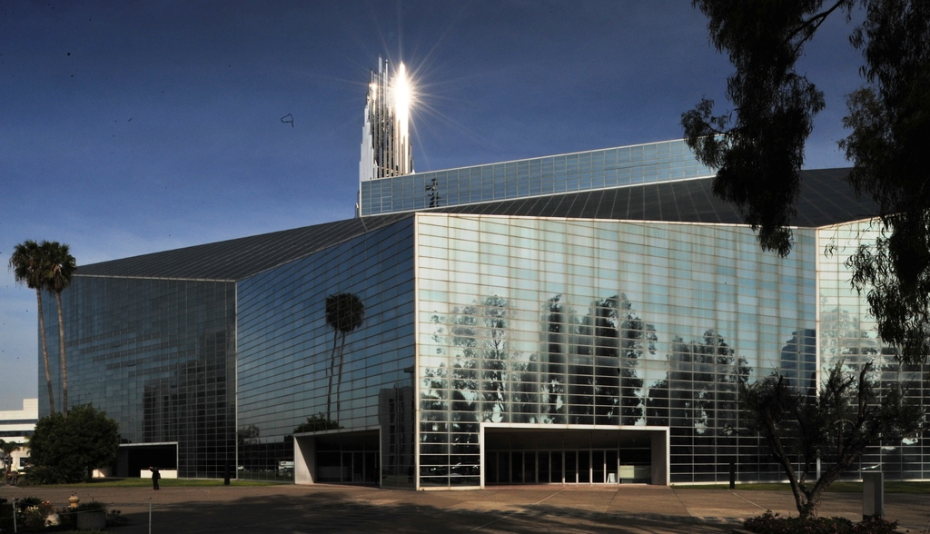 Philip Johnson - 水晶教堂 Crystal Cathedral 張基義老師拍攝 004.jpg